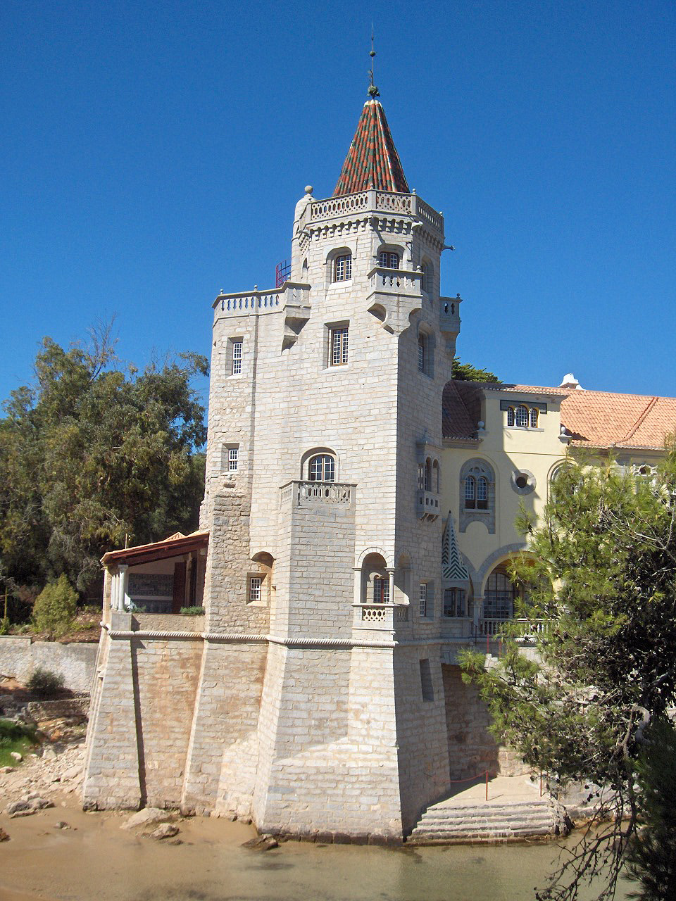 Museu Biblioteca Conde Castro Guimarães, 19th century mansion of the count of Guimarães; Cascais, Portugal